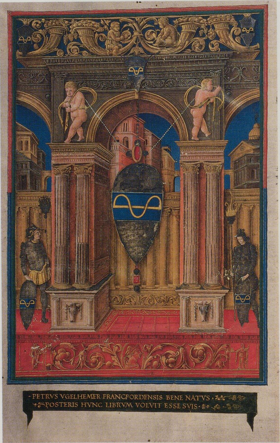 Gotha, Forschungsbibliothek, Mon. typ. 1477, 2° (13), fol. a1v